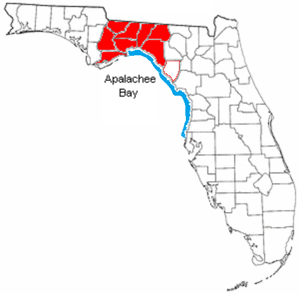 This map shows the geological definition of the Big Bend Coast in blue, and the definition used by private agencies serving the Big Bend Region in red.